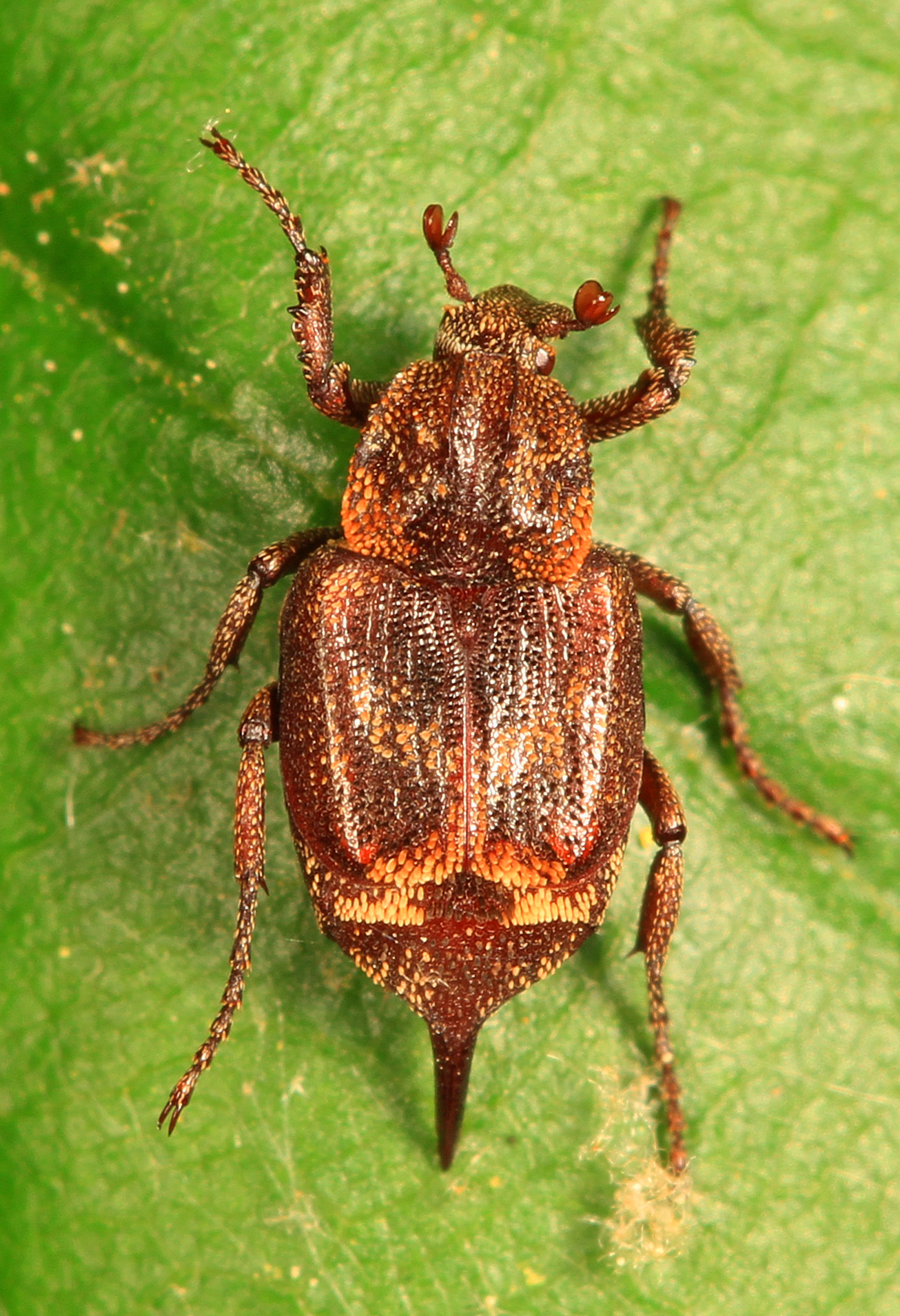 Scarab - Valgus canaliculatus, Mason Neck National Wildlife Refuge, Mason Neck, Virginia